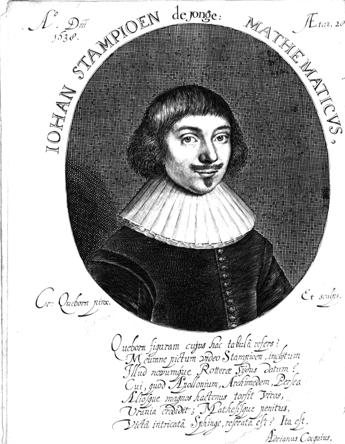 Jan Stampioen